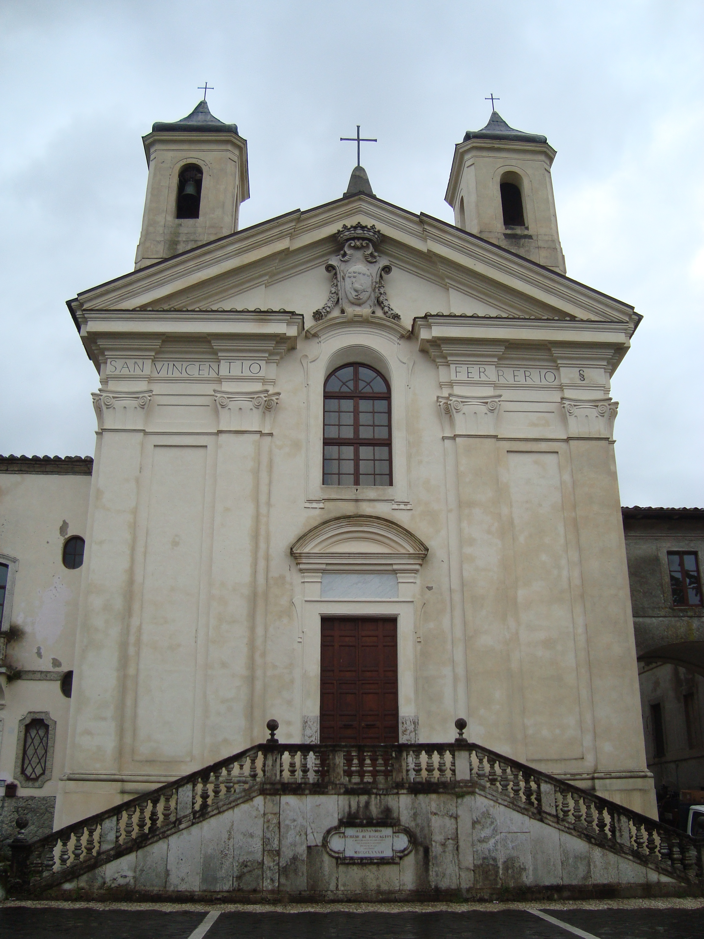 The church San Vincenzo in Mandela, Lazio, Italy